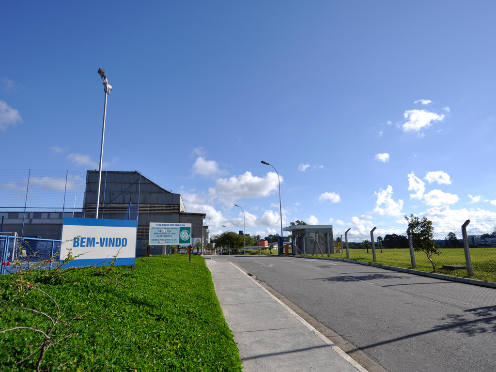 External rear view of Toledo do Brasil´s plant